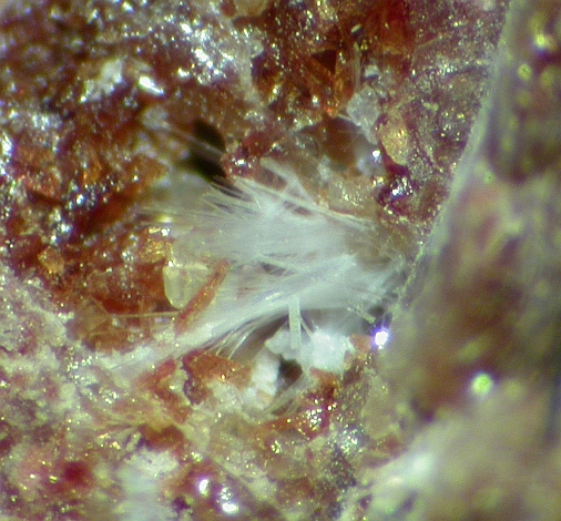 Xonotlite, Epidote-(Pb) (formerly known as Hancockite) Locality: Franklin Mine, Franklin, Franklin Mining District, Sussex County, New Jersey, USA Acicular crystals of xonotlite with hancockite. Field of view 3 mm. Photo and specimen Leon Hupperichs.